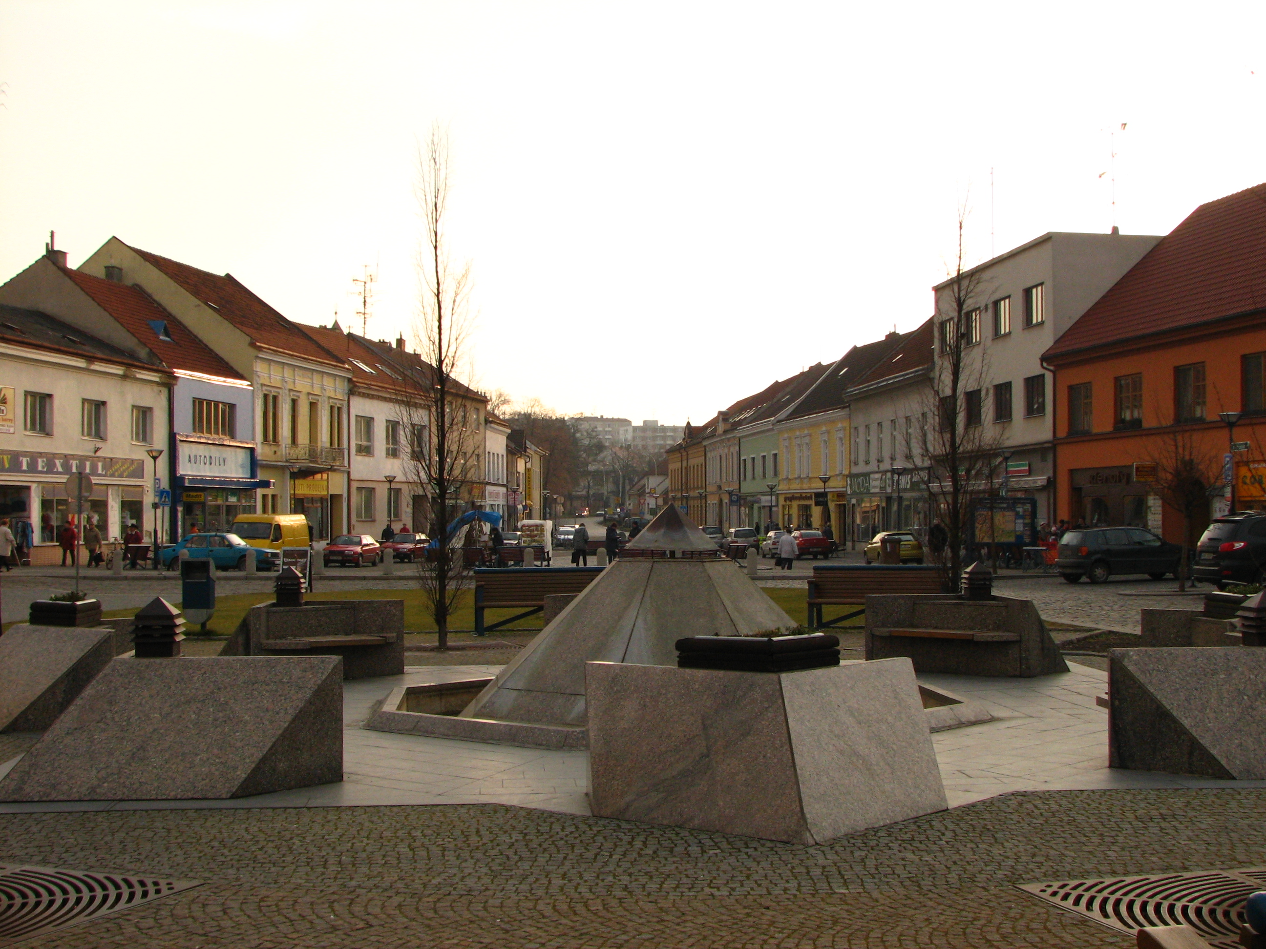 Eastern Part of the Masaryk Square in Kyjov